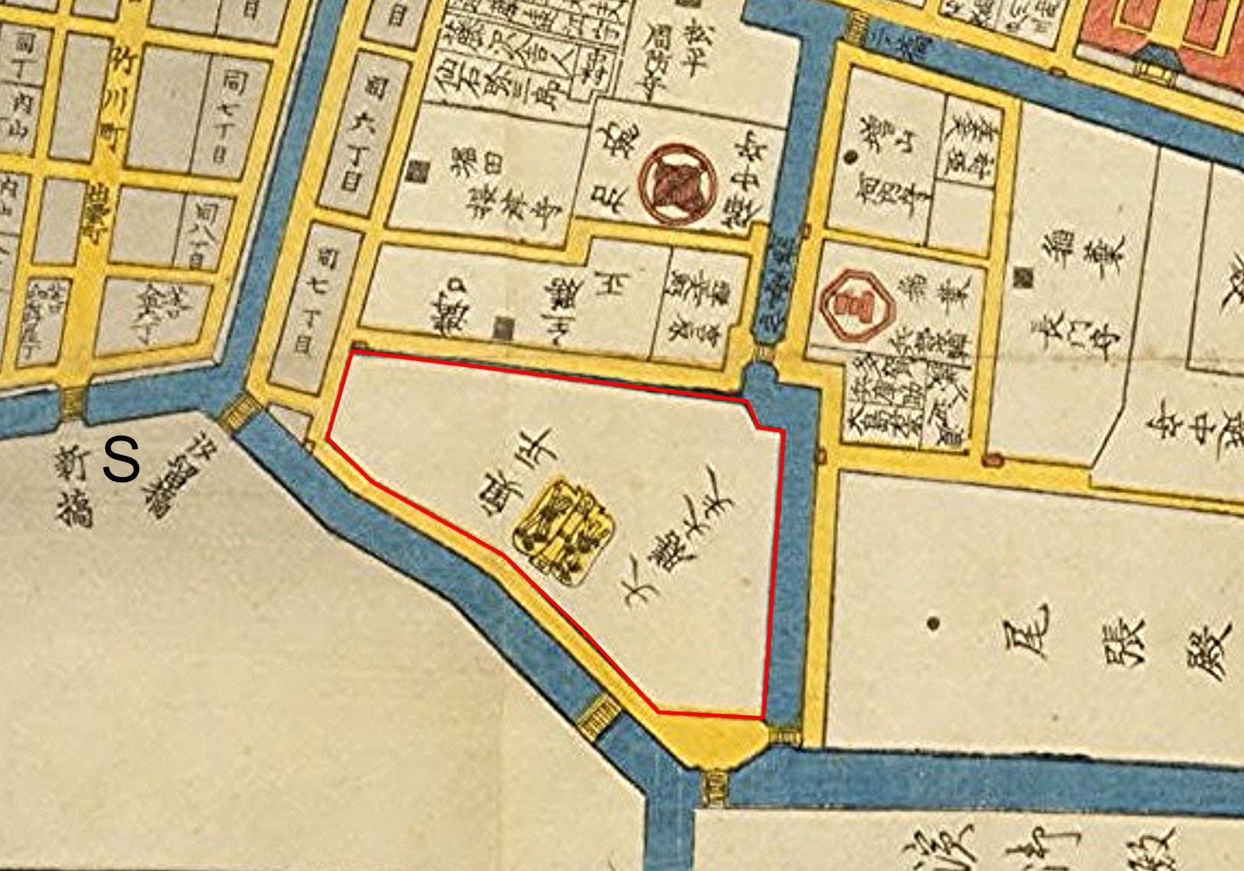 Okudaira residence at Edo